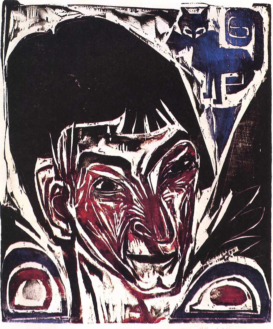 Portrait Otto Mueller